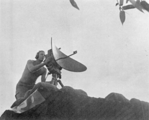 Cutler-Hammer AN/PPS-5 Combat Surveillance Radar